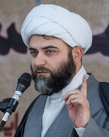 Mohammad Qomi